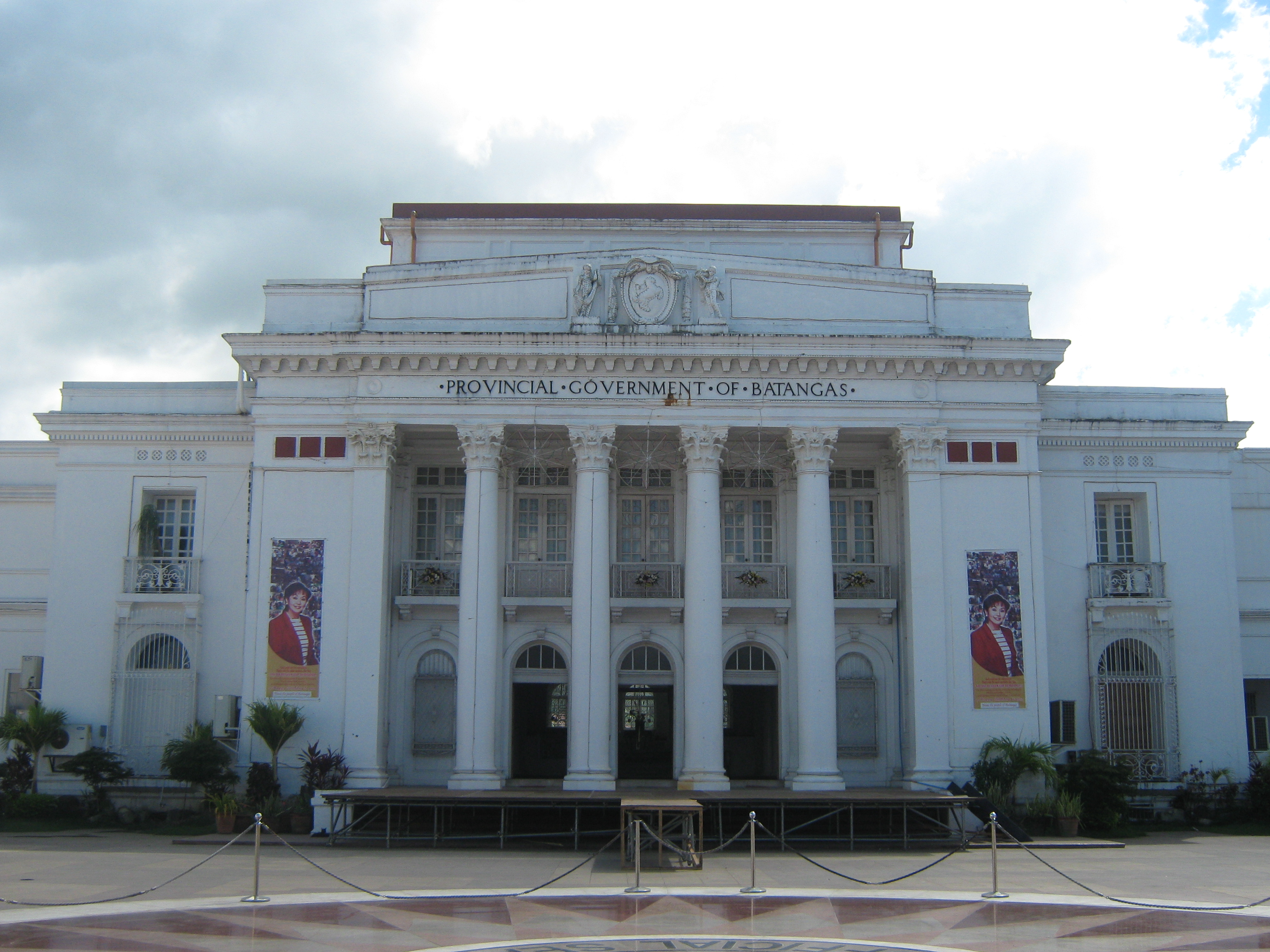 This image depicts the Batangas Provincial Capitol Building located in Brgy. Kumintang Ibaba, Batangas City, Philippines. Tagalog: Ipinapakita ng larawang ito ang Gusali ng Panglalawigang Kapitolyo ng Batangas na matatagpuan sa Brgy. Kumintang Ibaba, Lungsod ng Batangas, Pilipinas.